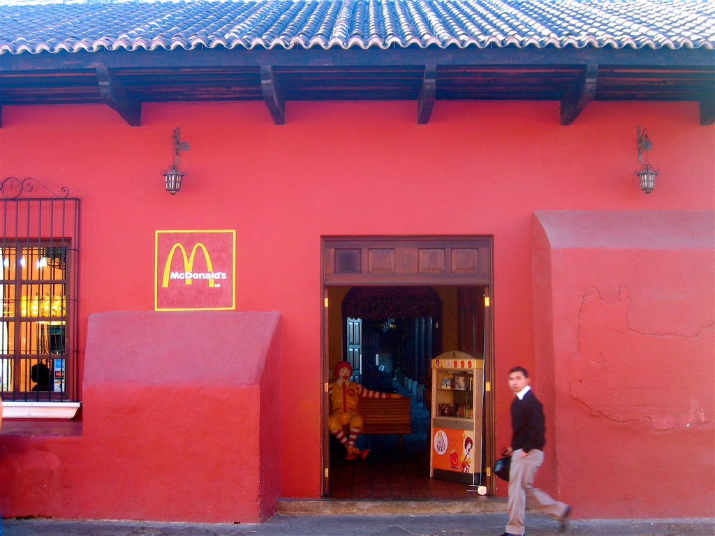 McDonald's Restaurant, Antigua Guatemala I stayed in antigua one night in january, just to get away from the city for a weekend. this mcdonald's was directly across from the hotel i stayed at (the hotel was probably cheaper than a meal there).